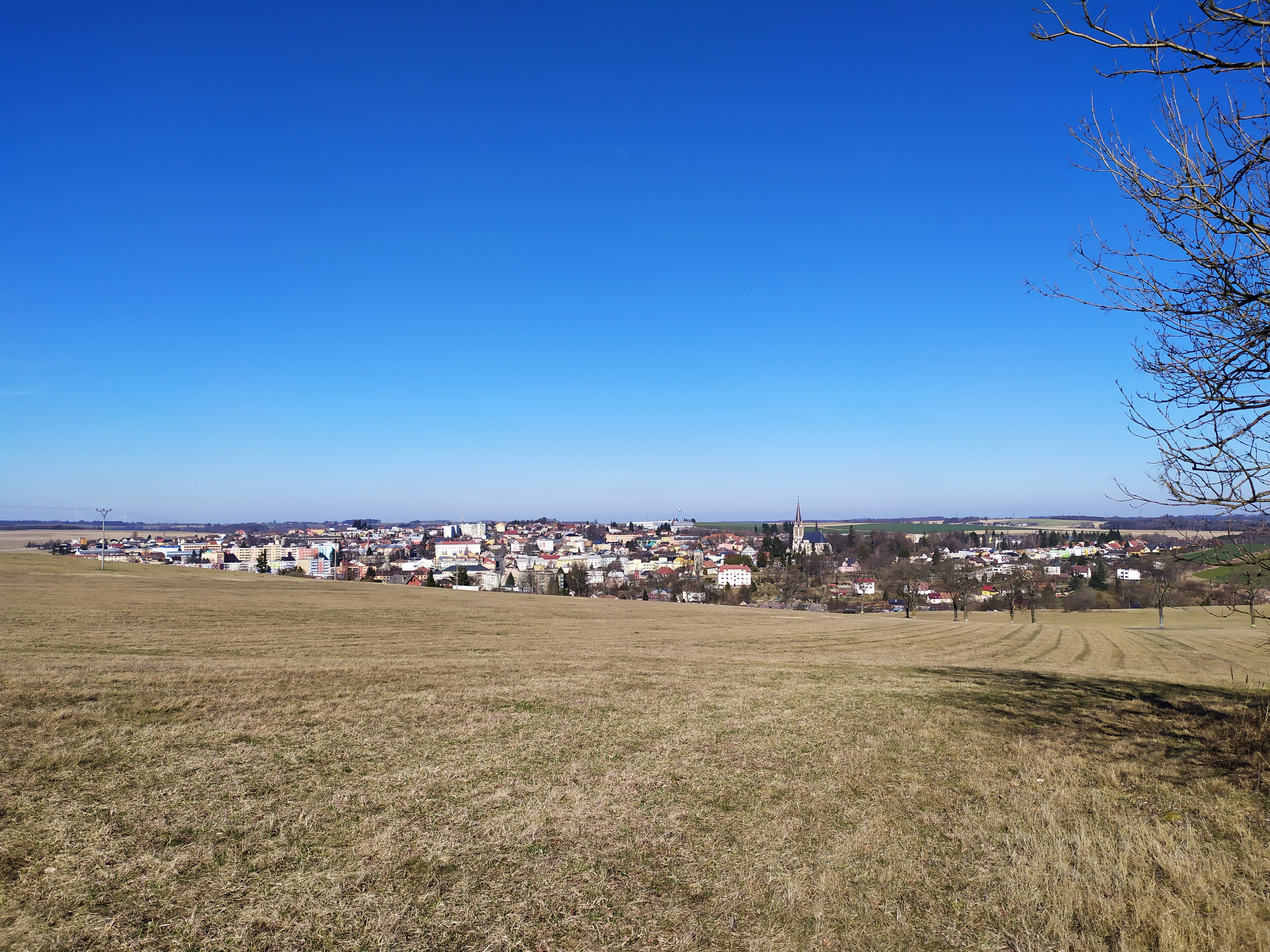 Nature, geomorphological part of Nízký Jeseník. Place, where was the picture taken: Letní kopec (544 MASL).